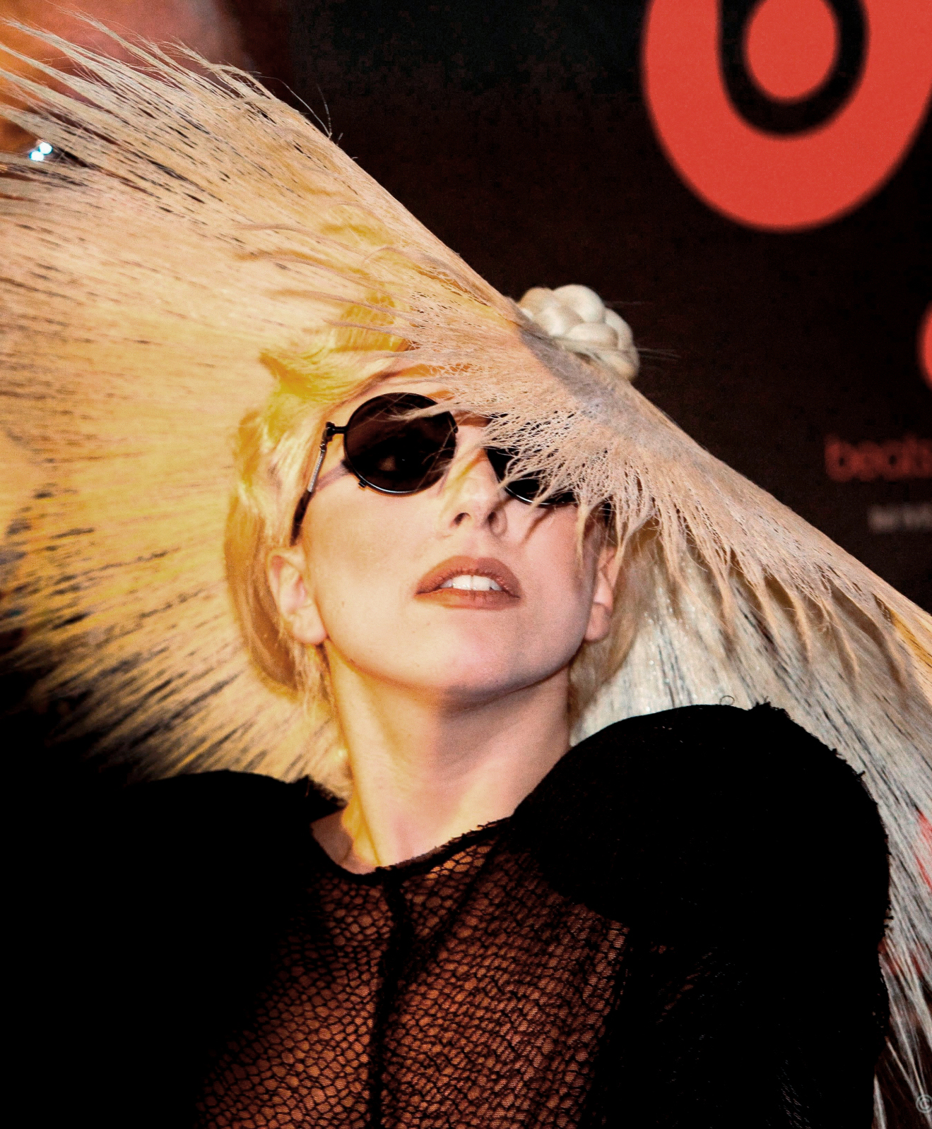 Lady Gaga and Monster announce Project RED Heartbeats and RED Beats Solo at the 2010 International Consumer Electronics Show, in Las Vegas, Nevada.